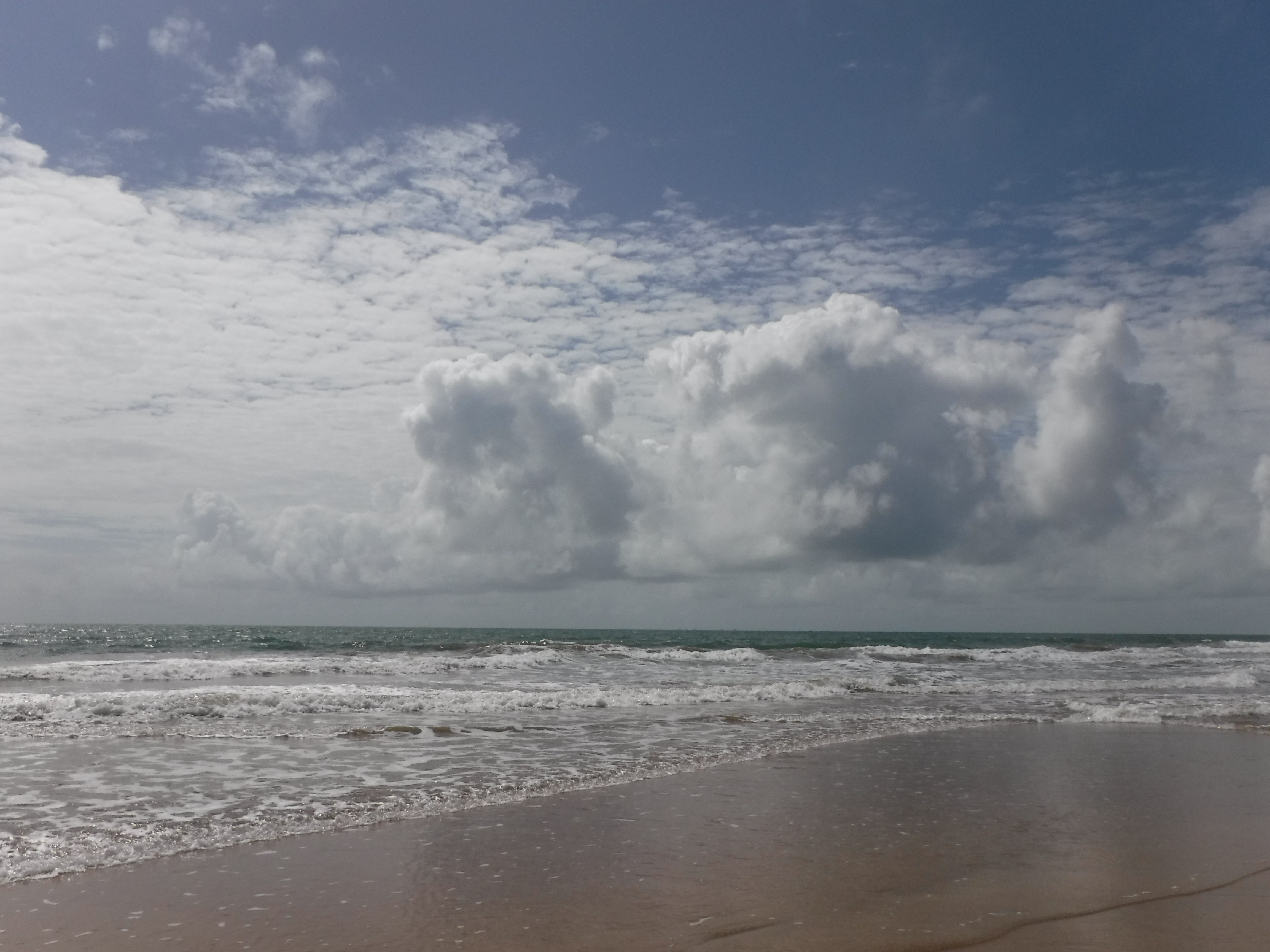 Mayaro Beach on a bright sunny day in spring.